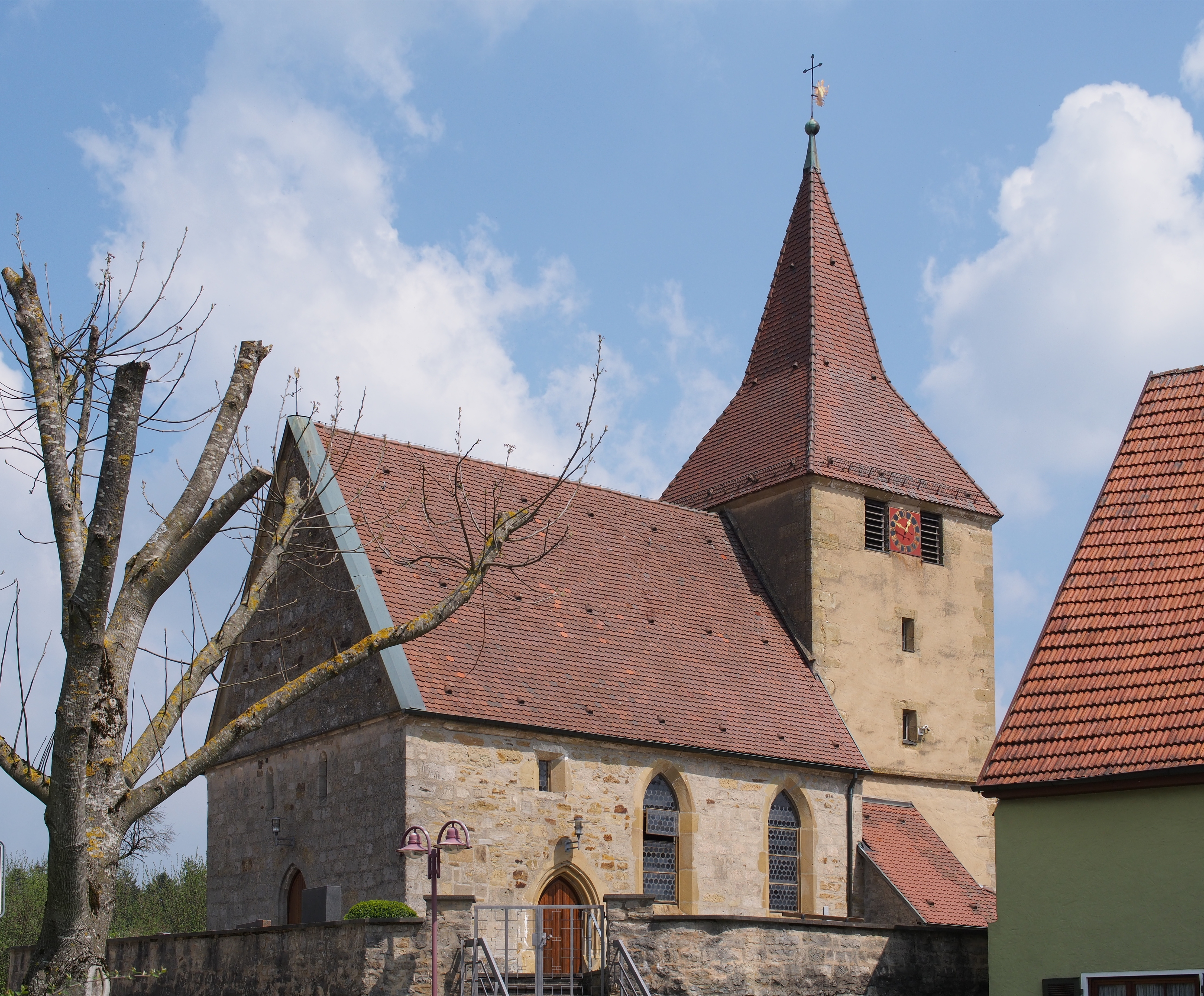 St Anna pilgrimage church, Tanau, Durlangen, Germany